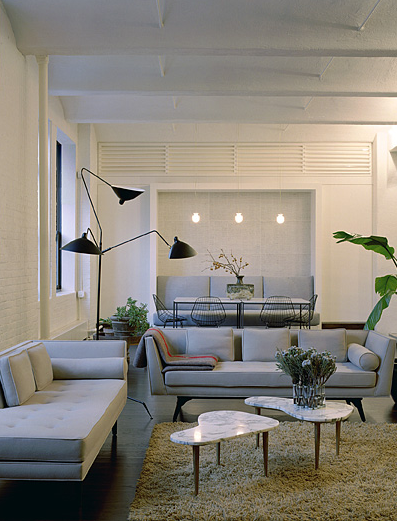 Serge Mouille